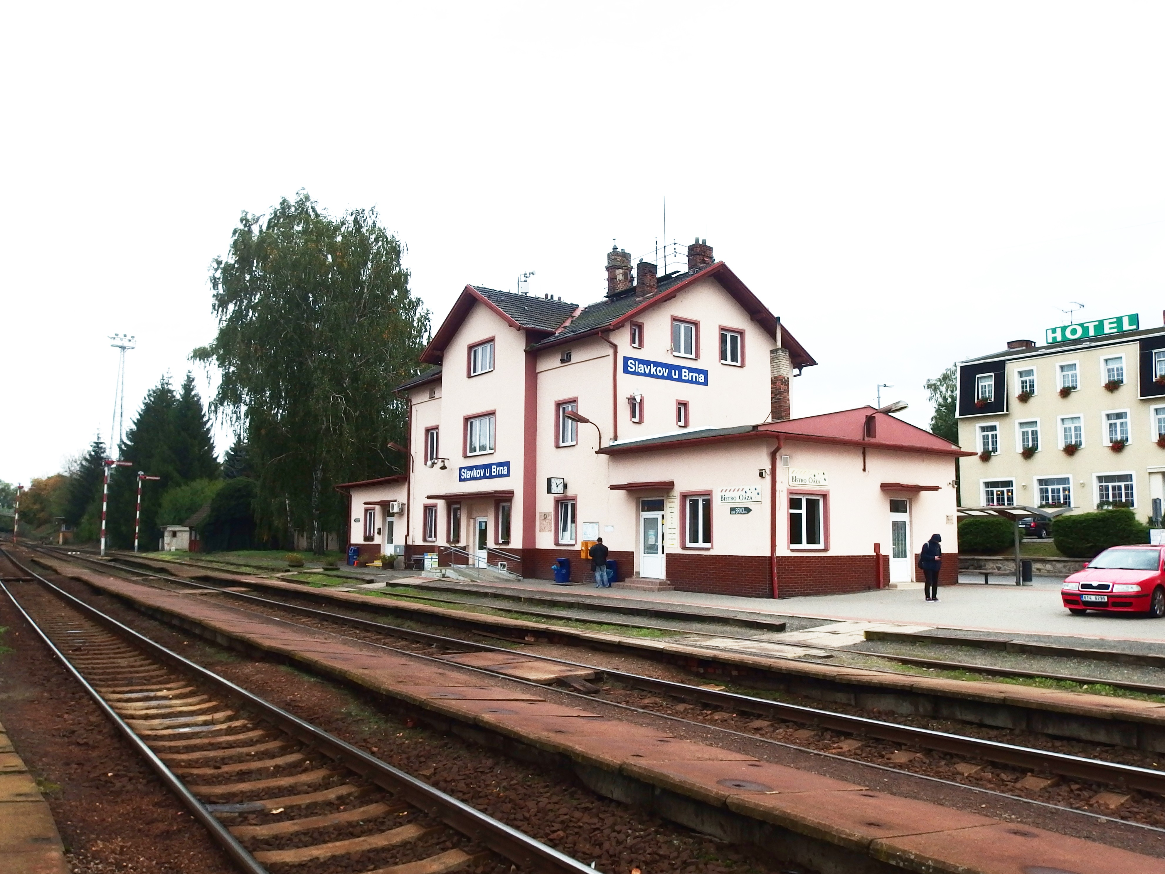 Slavkov u Brna in Vyškov District, Czech Republic.